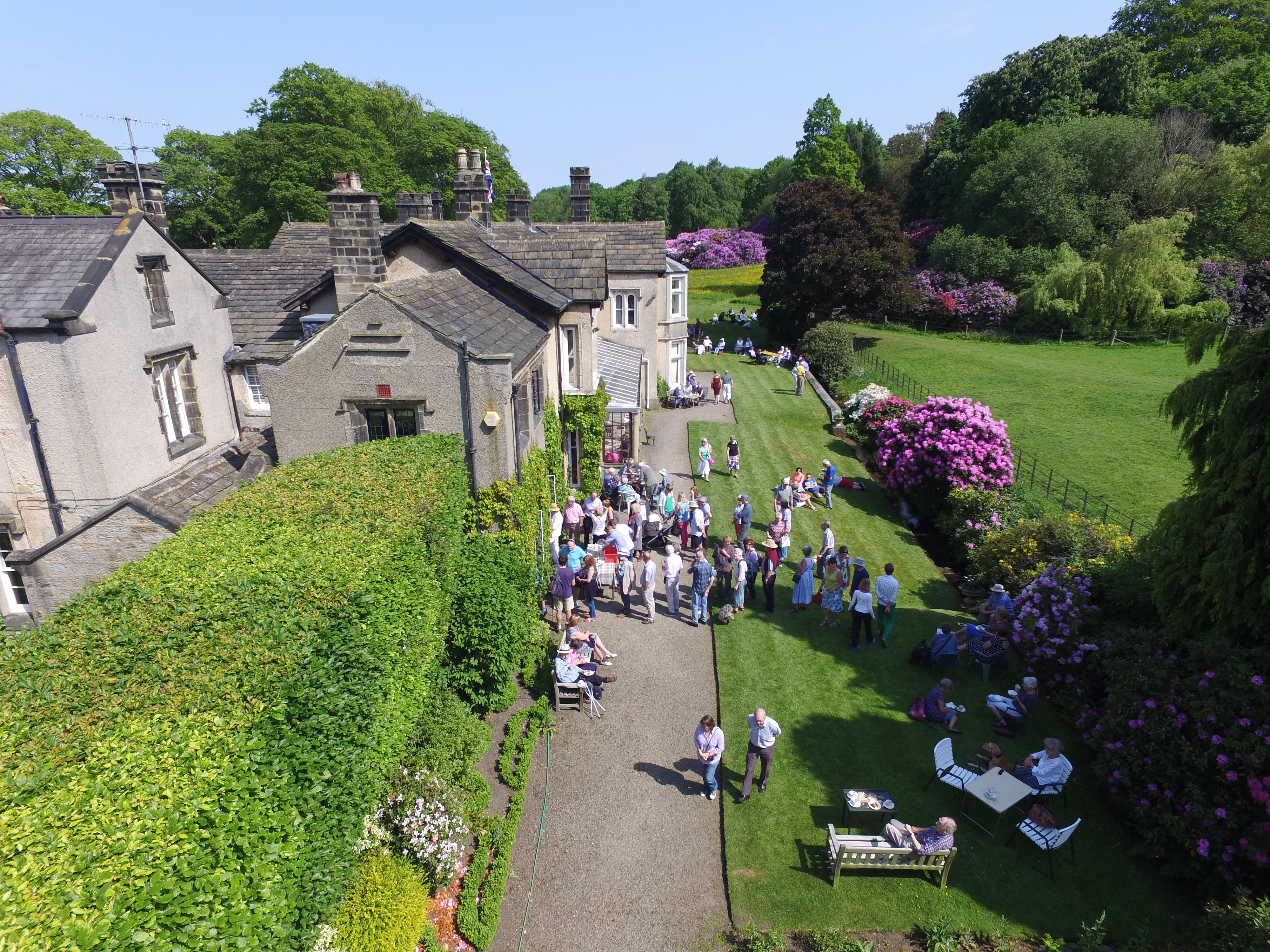 The south terrace of Creskeld Hall serving tea during the NGS open garden